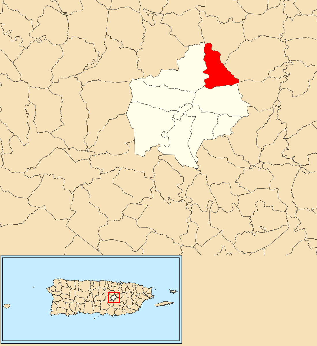 Cedrito, Comerío, Puerto Rico locator map